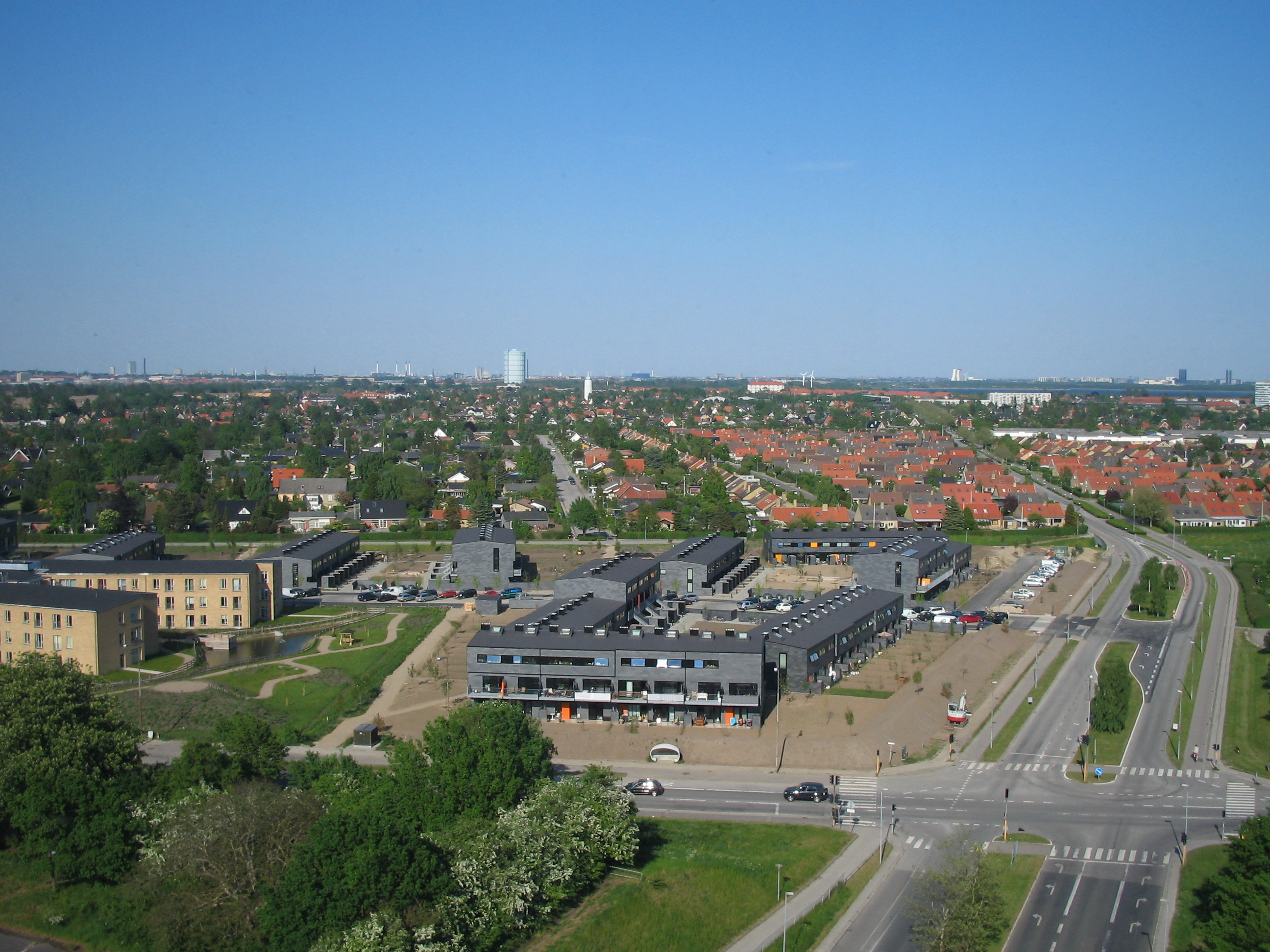 the far left the black highrise is the Ferring building in Ørestad. The blue tower in the middle is the gas-silo in Valby. The city-walk was very interesting, and we were given insights into the thinking, or lack of, of the city planners. They did have a huge challenge, Denmark was lacking 100,000 housing units, and they managed to deliver, the downside was that it produced the endless concrete landscapes, that the planners and architects themself wouldn't live in themself. The planned citys were also hurt by changing conditions, by the time "Avedøre Stationsby" was finished we were in a recession, and public housing was hit by the crisis because they were forced to house marginalised people in cities like this. Forstadsmuseet, the Museum of suburbia, that organised the city-walk also has a flickr accout